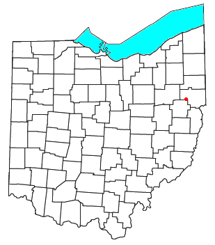 Locator map of the unincorporated community of Kensington in Columbiana County, Ohio, United States.